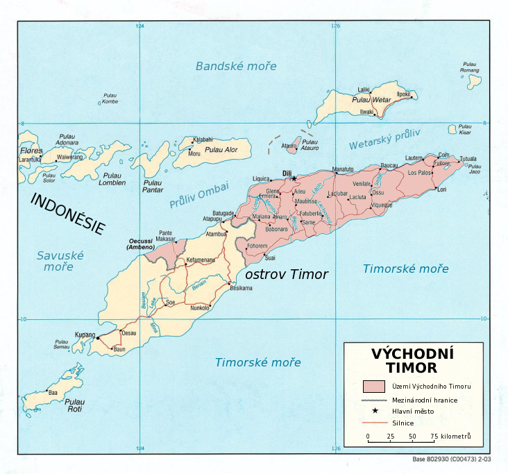 Map of East Timor with Czech description.